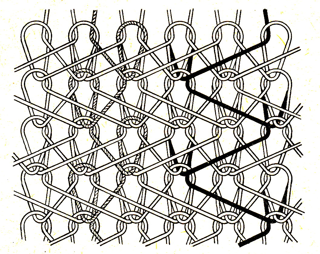 Structure of a Locknit (Charmeuse) fabric